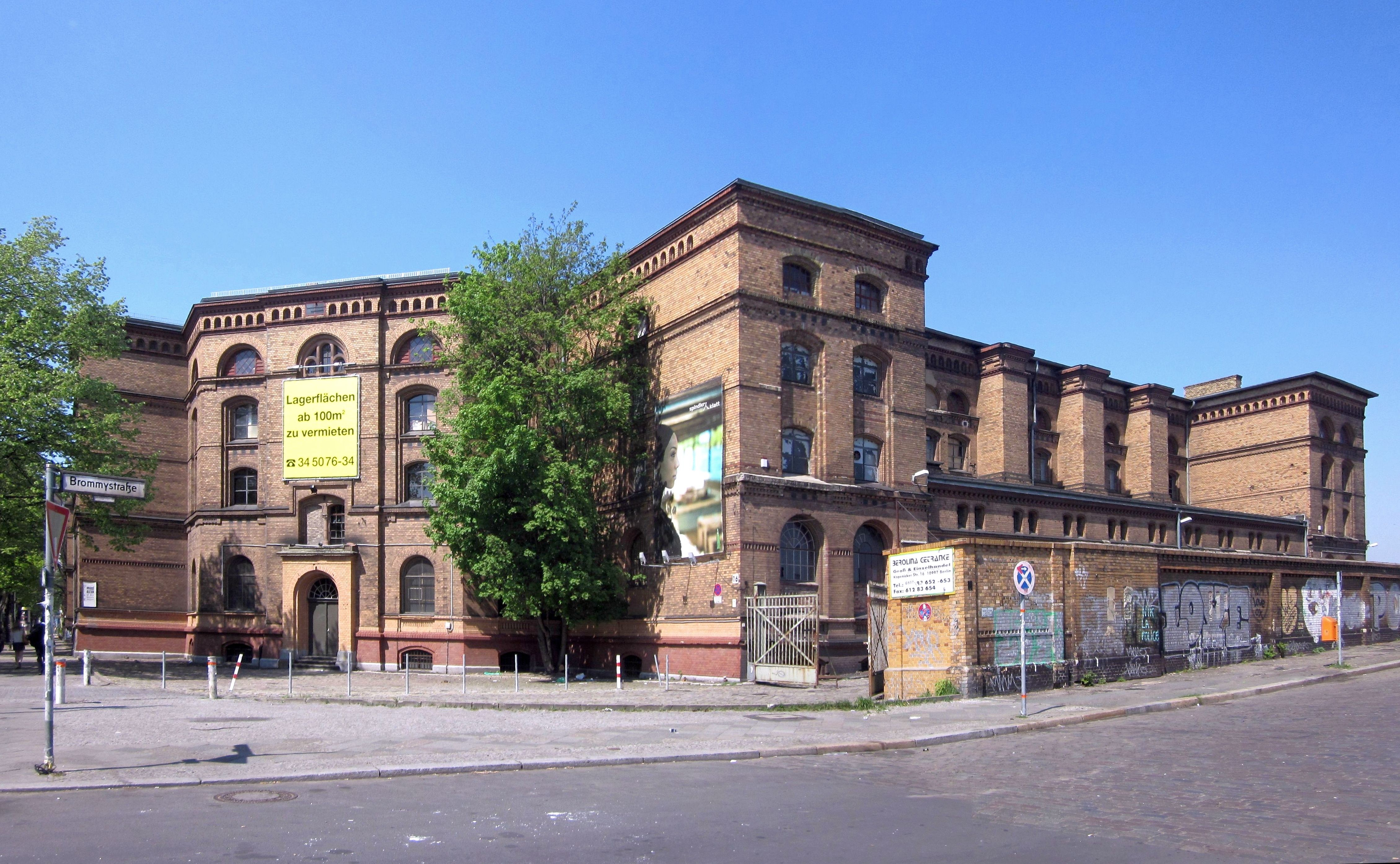 The former bakery of the supply office of the Garde du Corps ("Army Bakery") at Köpenicker Straße No. 16-17 in Berlin-Kreuzberg, here seen from Brommystraße. The buildings of the army bakery were built from 1888 to 1890 by Kneister, Arenberg, and Böhm on the riverbank of the Spree. Apart from the bakery building proper, two houses built as residences for officials and a functional building have been preserved. In 1937, the premises were taken over by the Berlin Harbor and Warehouse Administration (BEHALA), which commissioned Petzold to built the Victoriaspeicher II (storage building) there, completed in 1938. The buildings of the Army Bakery and the Victoriaspeicher II constitute a complex that has been designated as a cultural heritage monument.